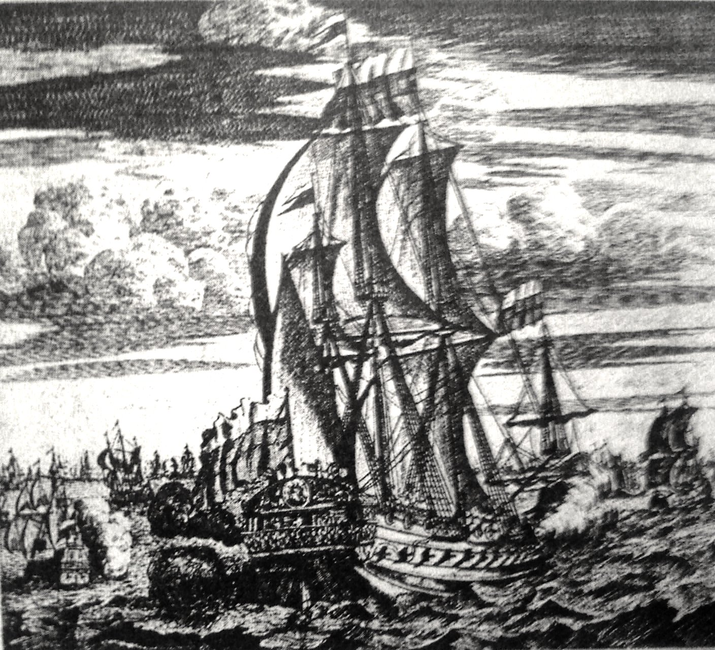 Picart